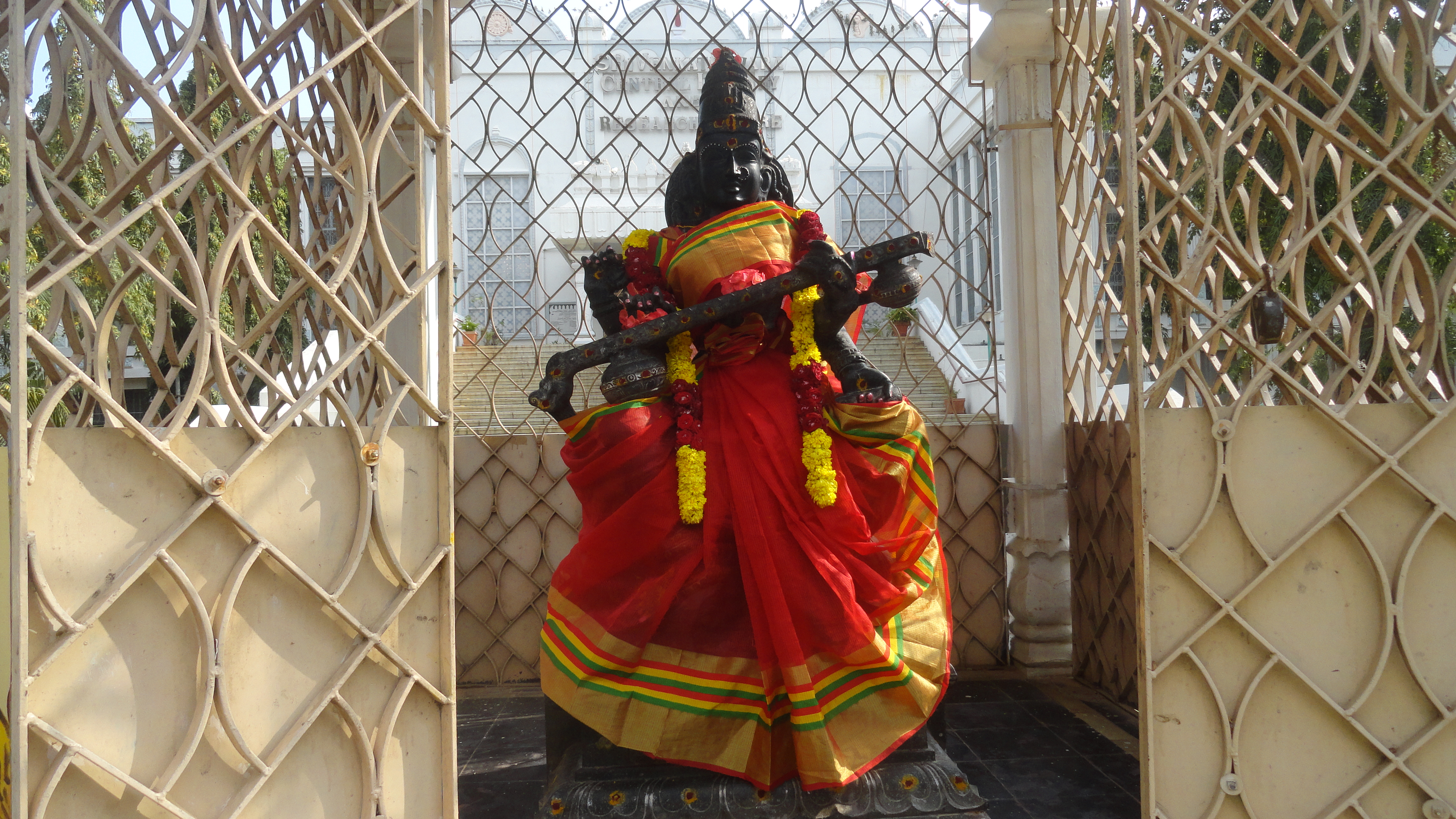 Tourist place